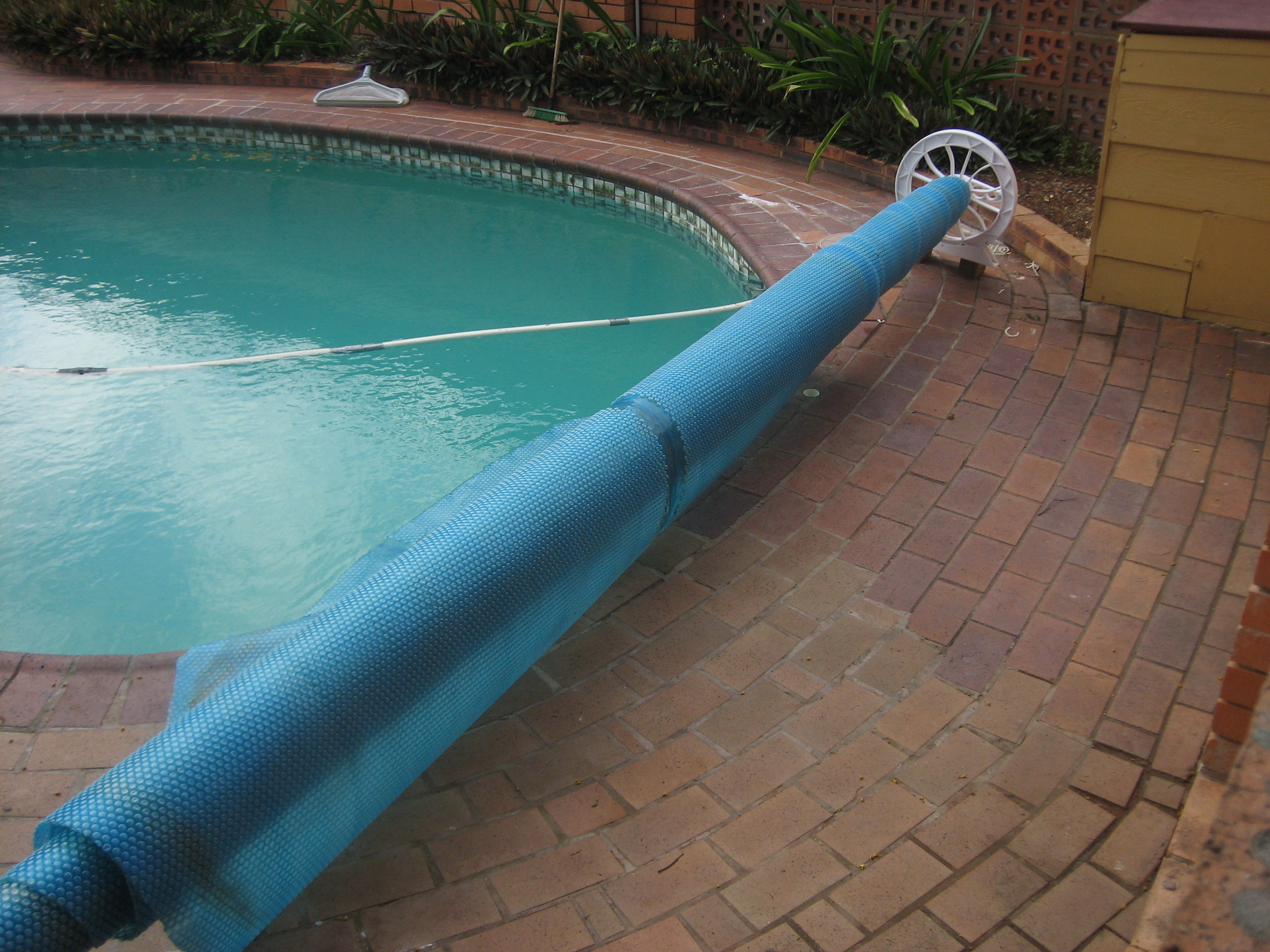 A rolled up pool cover used by a residential swimming pool. Photo taken by SMC.